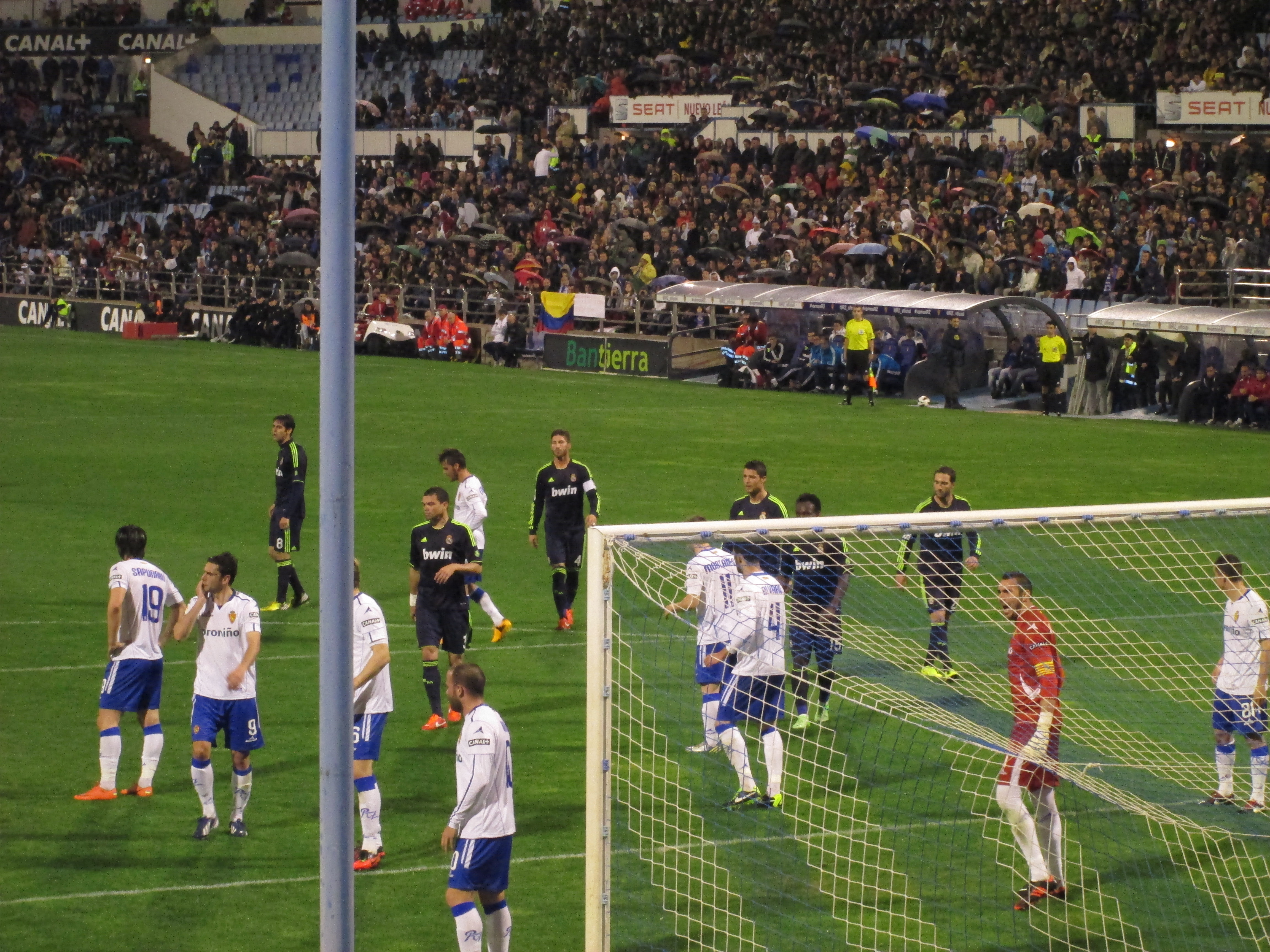 Corner en el partido Real Zaragoza Real Madrid de la temporada 2012-13. La Romareda.